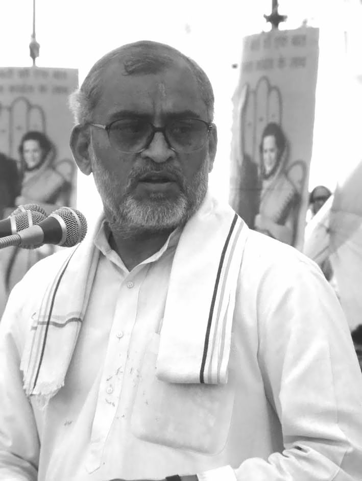 I took this photo personally while addressing public at Chhatarpur